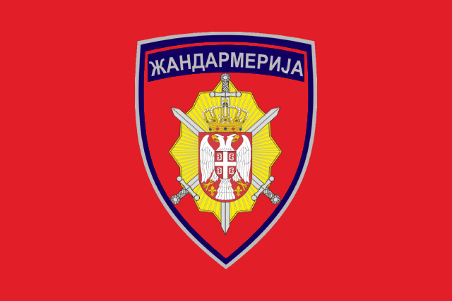 Flag of Serbian Gendarmerie